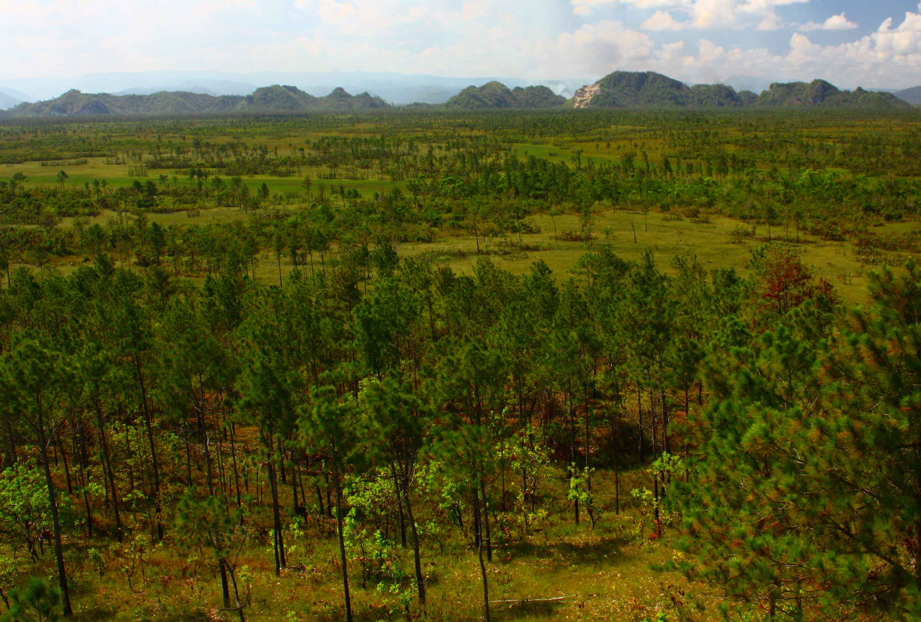 Looking towards the Maya Mountains from the fire watchtower, with Pinus hondurensis forest